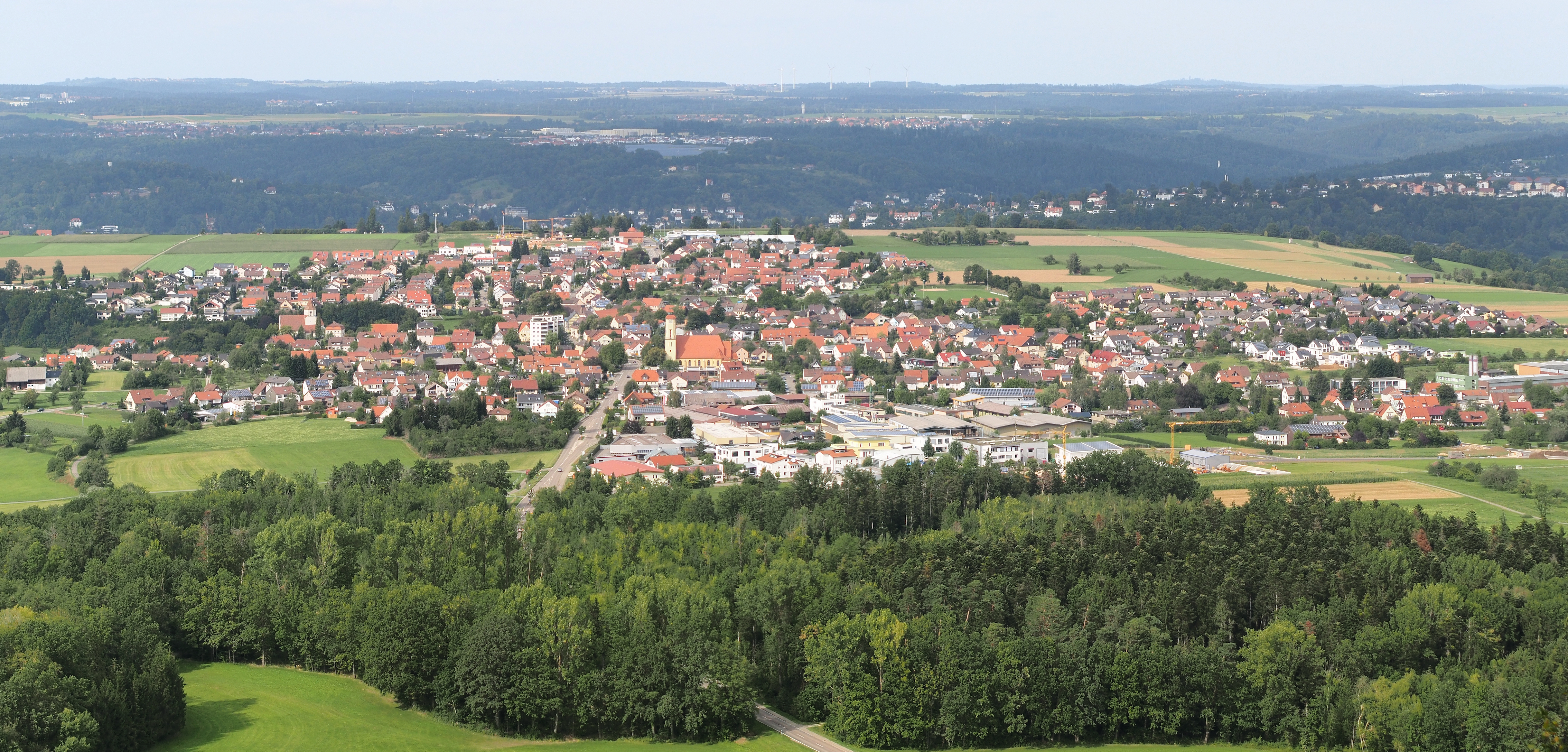 Panoramic view of Straßdorf as seen from Rechberg northern slope